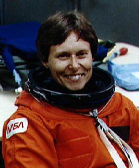 STS-42 Discovery, Orbiter Vehicle (OV) 103, Payload Specialist Roberta L. Bondar, wearing launch and entry suit (LES), smiles as she takes a break from launch emergency egress procedures in the Weightless Environment Training Facility (WETF) Bldg 29. Bondar is representing Canada during the International Microgravity Laboratory 1 (IML-1) mission aboard OV-103. Image ID: S91-49539